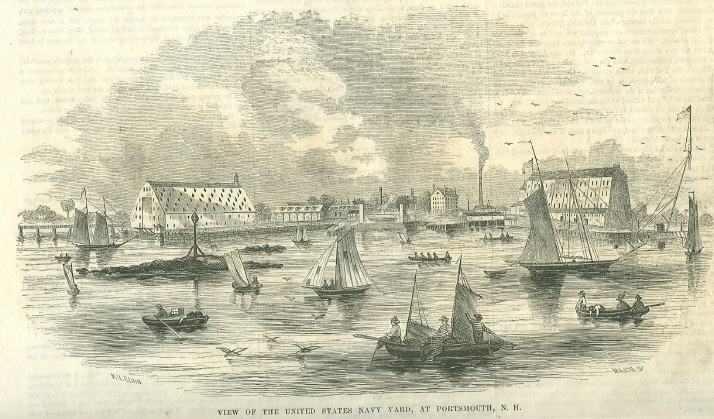 View of the United States Navy Yard, at Portsmouth, N. H.; from Gleason's Pictorial Drawing Room Companion, published in 1853 at Boston, Massachusetts. At left is the Franklin Shiphouse, completed in 1838 and lengthened in 1854, making it one of the largest in the country.